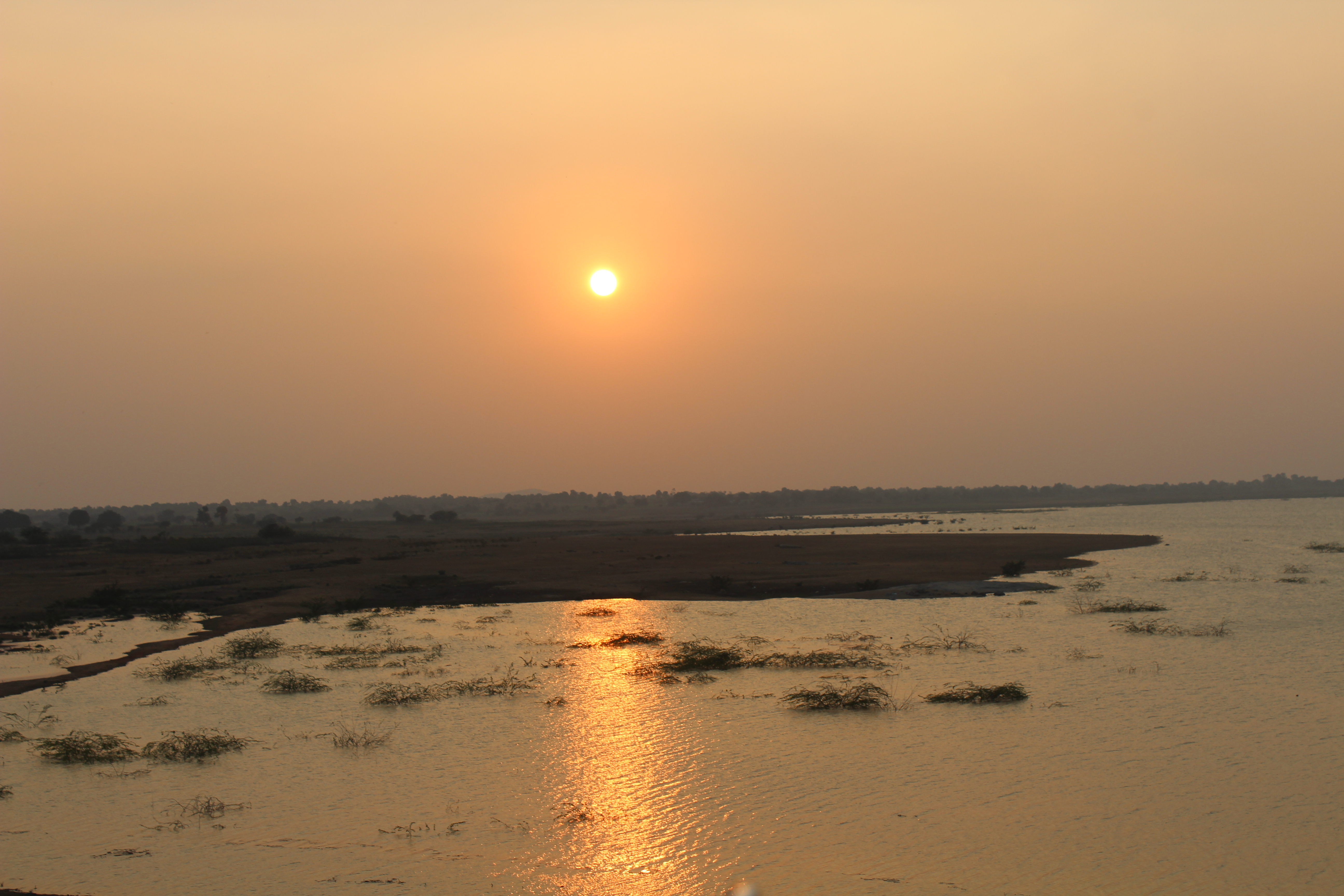 Sunset at Dindi water reservoir in Telengana.